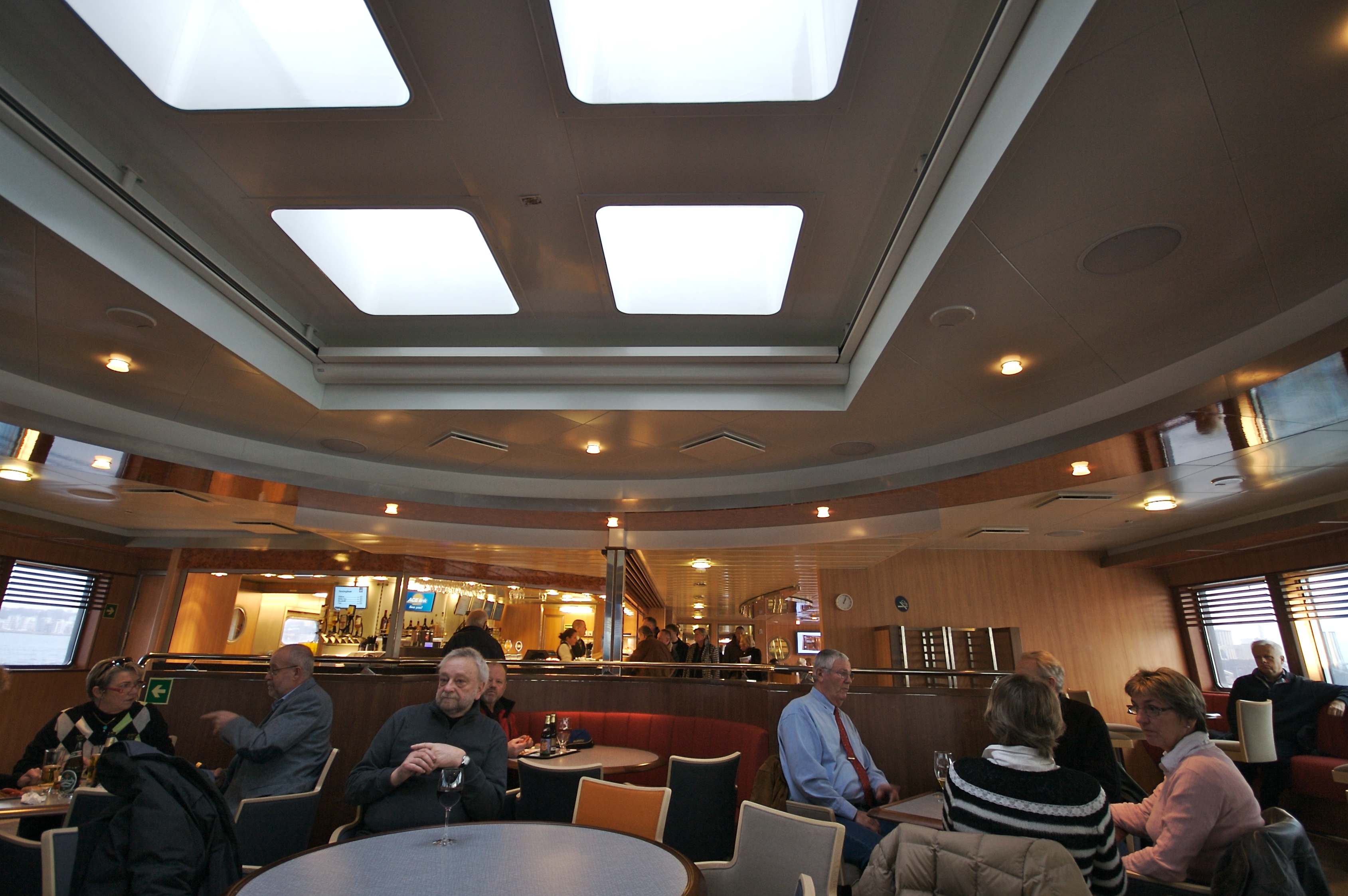 M/S Simara Ace, interior photo from the cafeteria showing passengers